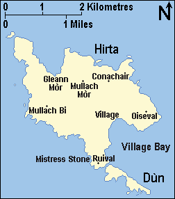 Map of the island of Hirta, St Kilda, Scotland (archipelago)